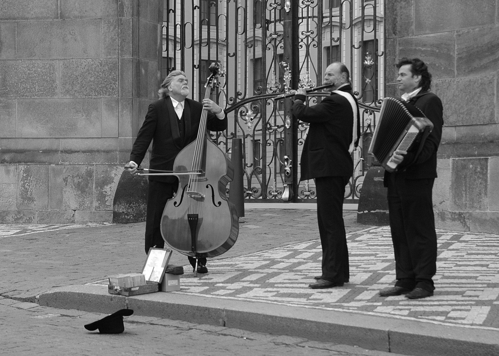 Street musicians in Prague : double bass, accordion, flute.